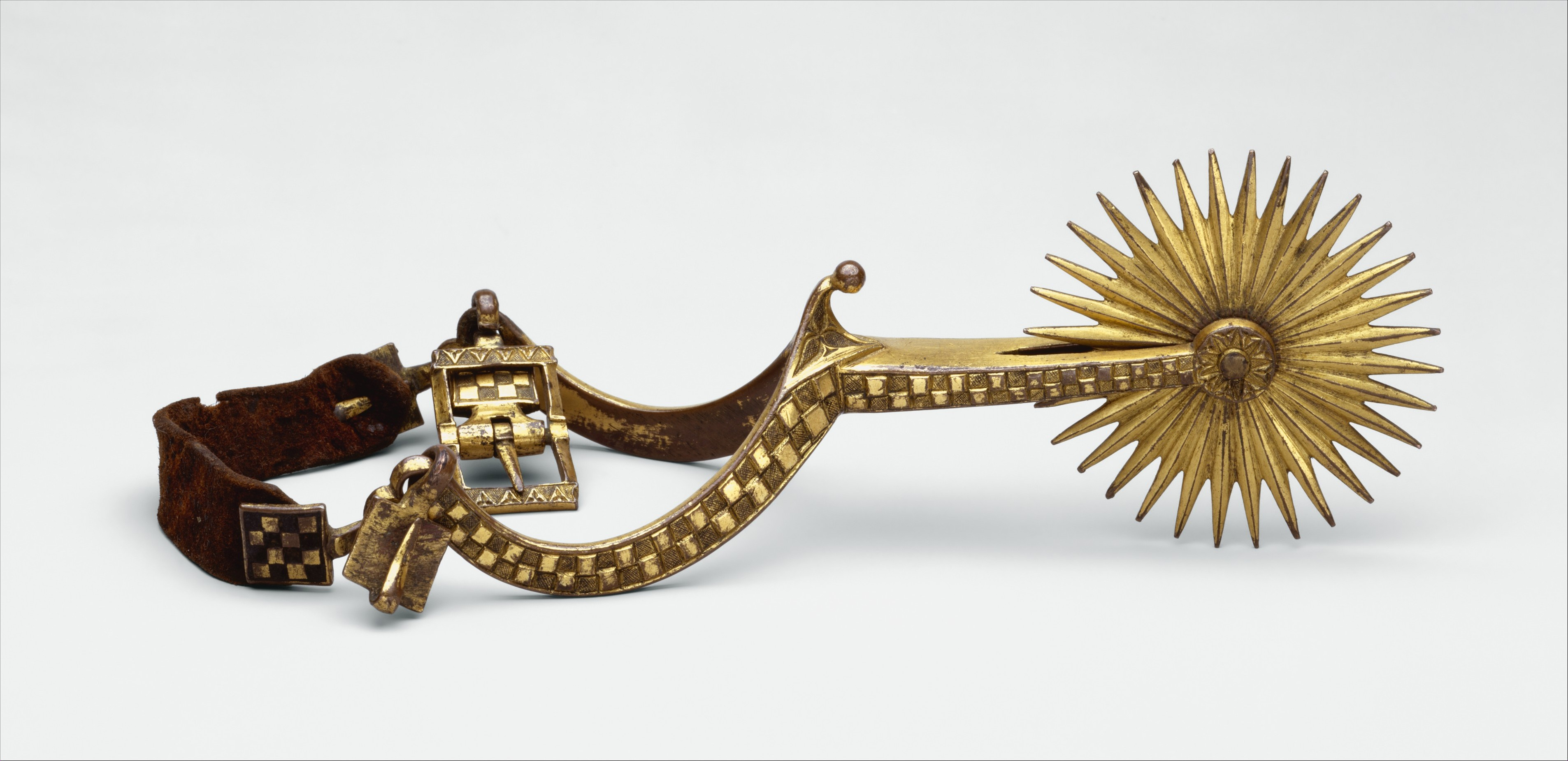 Rowel spur; French or Spanish, Catalonia; Equestrian Equipment-Spurs